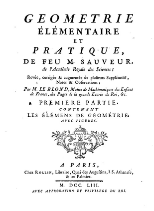 Frontpage of Geomètrie (1753) by Joseph Sauveur (1653-1716) edited and augmented by Guillaume Le Blond (1704-1781)